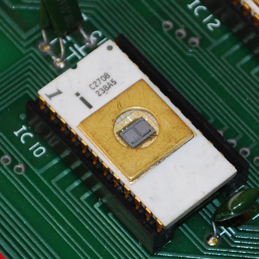 Intel 2708, a 1K Byte Erasable Programmable Read Only Memory (EPROM). This 8192 bit N-Channel EPROM was introduced by Intel in 1975.